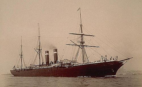 City of Richmond, built in 1873 by Tod & McGregor of Glasgow for Inman Line